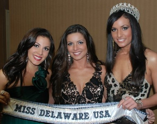 Miss DE USA girls